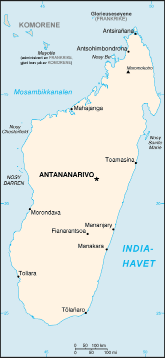 Norwegian map of Madagascar.